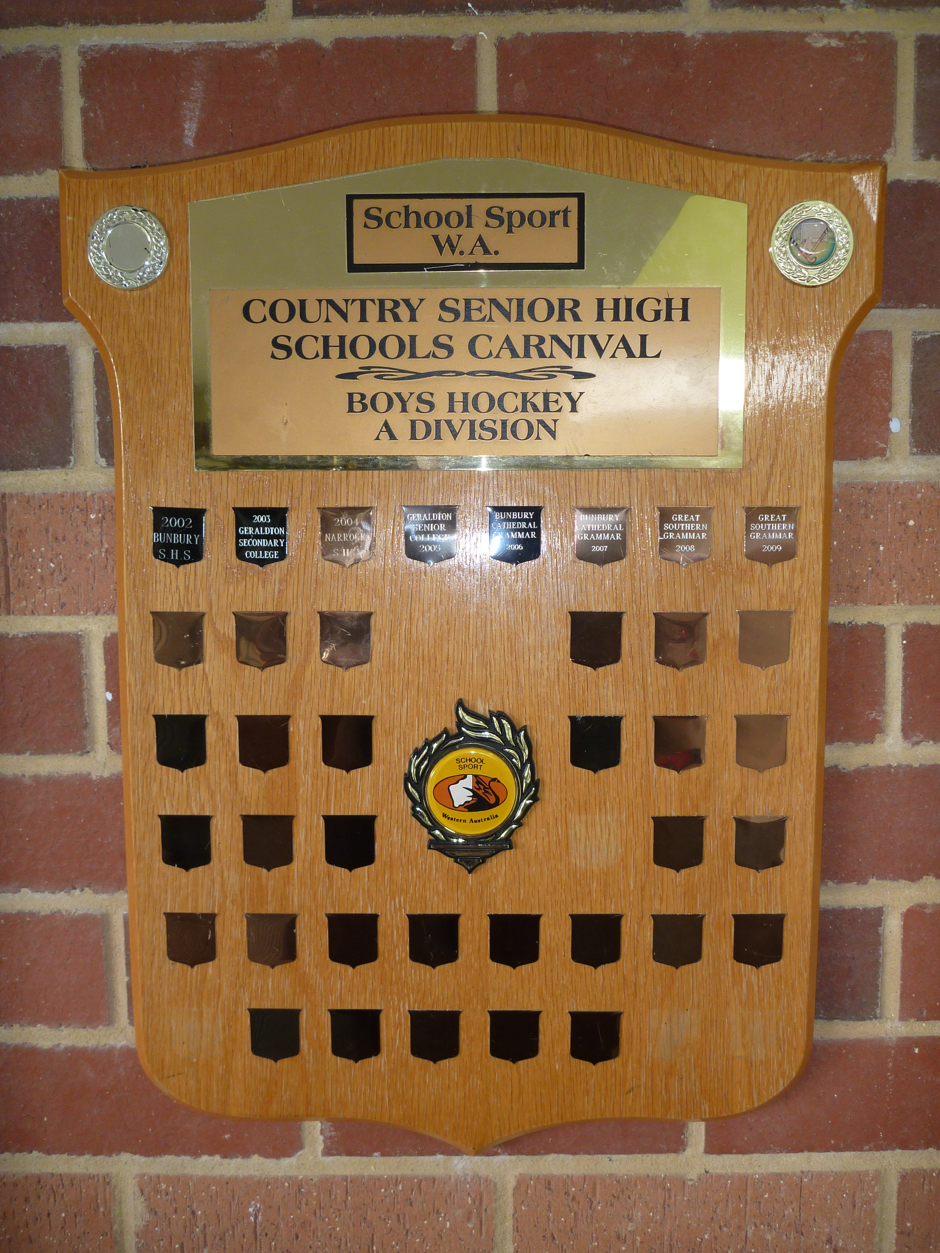 Boys A grade countryweek shield for hockey